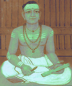 Portrait of Thunchaththu Ramanujan Ezhuthachan,the father of the Malayalam language